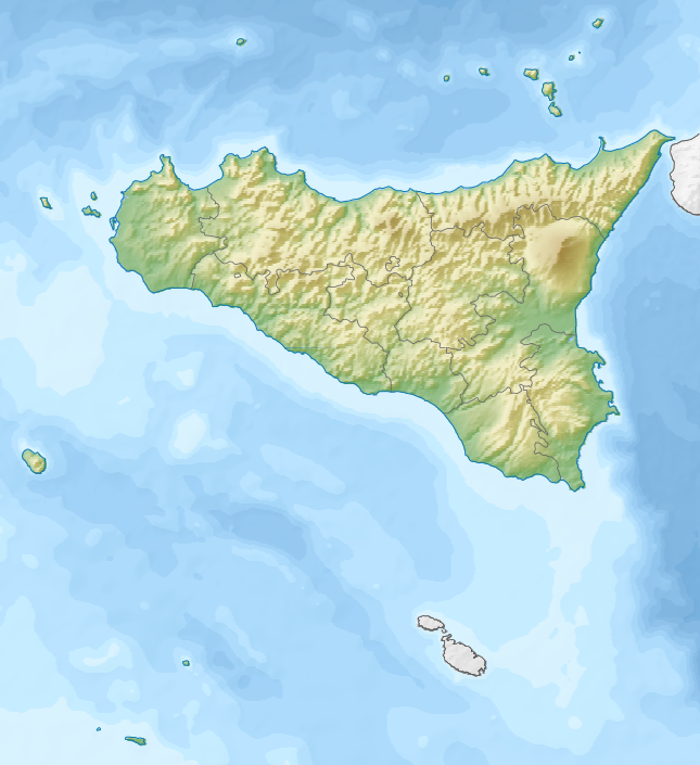 Relief map of Sicily, Italy. Equirectangular projection, N/S stretching 125 %. Geographic limits of the map: N: 38.9° N S: 35.4° N W: 11.8° E E: 15.8° E